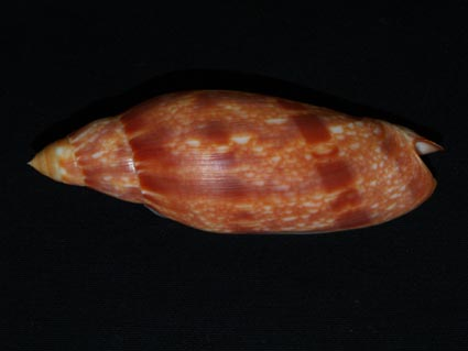 picture of shell of Volutoconus grossi from personal collection